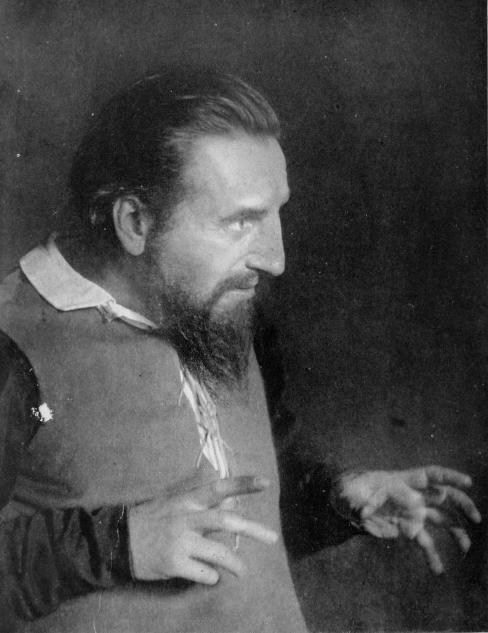 Actor Cavendish Morton as Iago